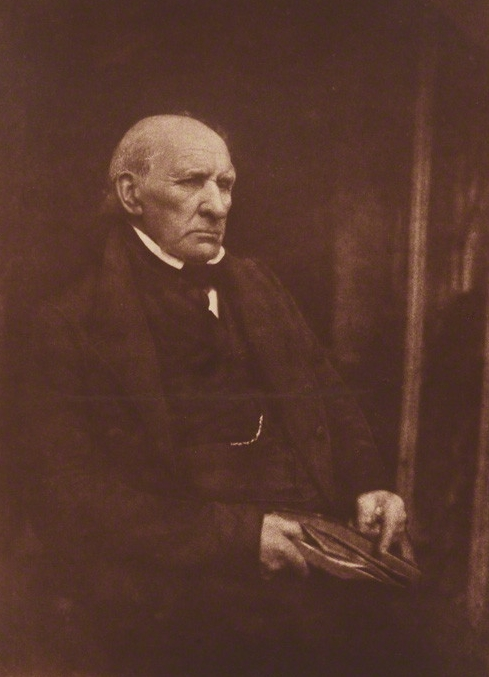 Photograph of Sir John Gladstone, father of William Gladstone.